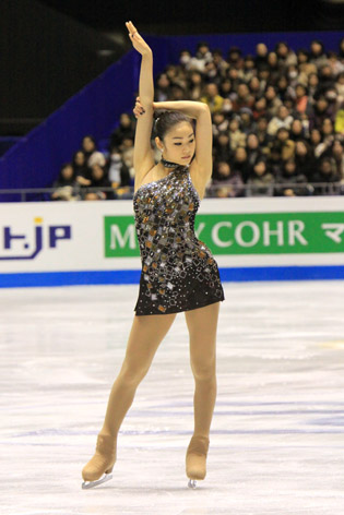 Kim at the 2009 GPF.